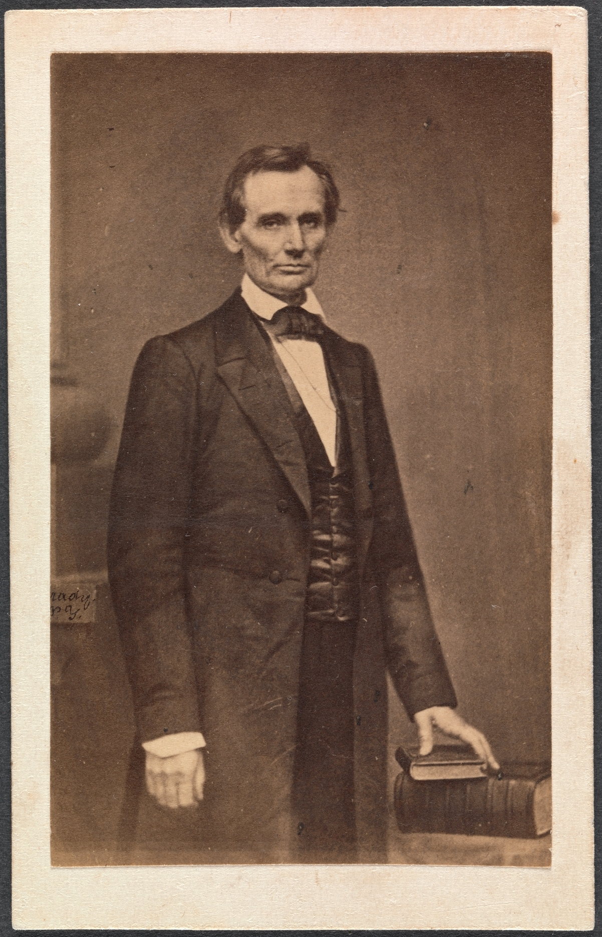 Portrait of Abraham Lincoln by Mathew Brady, February 27, 1860